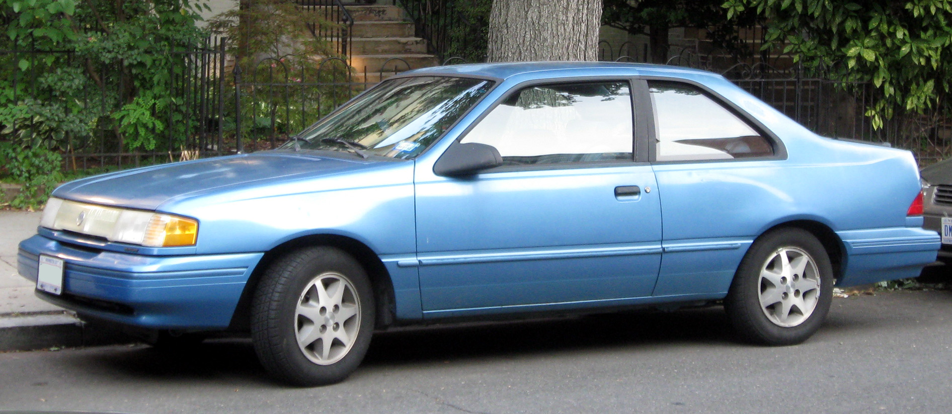 1992-1994 Mercury Topaz photographed in Washington, D.C., USA.